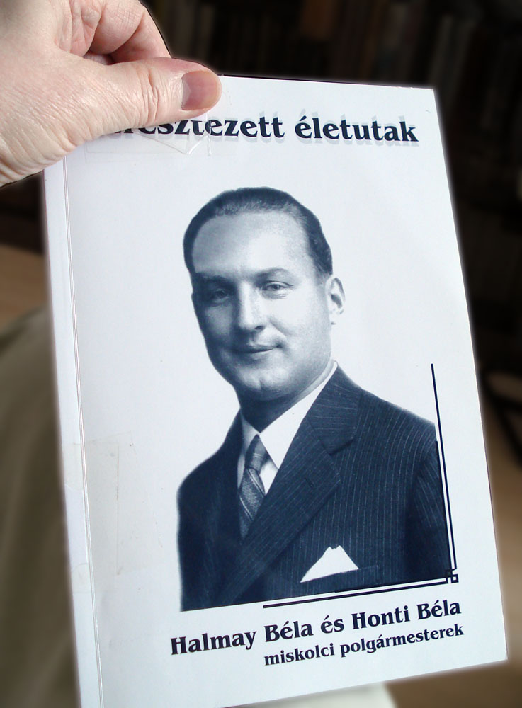 Béla Honti, Mayor of Miskolc on a book of Krisztián Kapusi